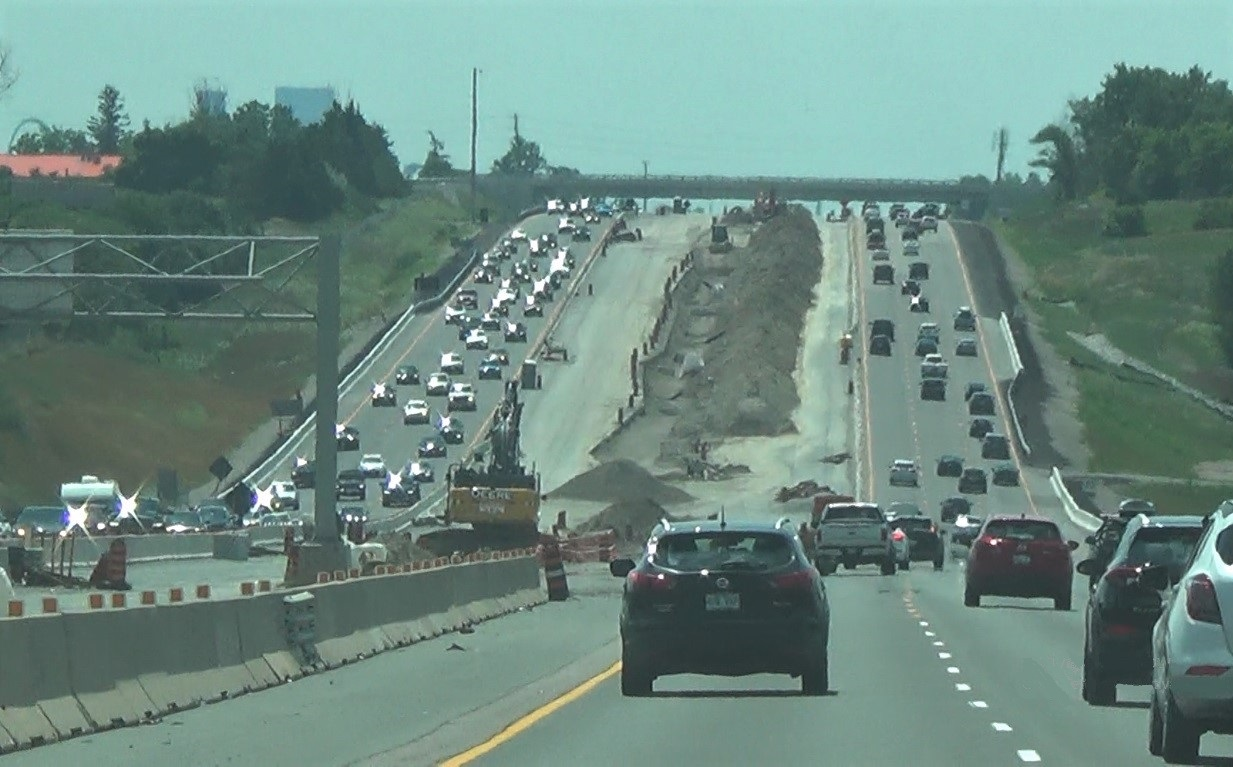 Ontario Highway 400 widening work in King Township in July 2020